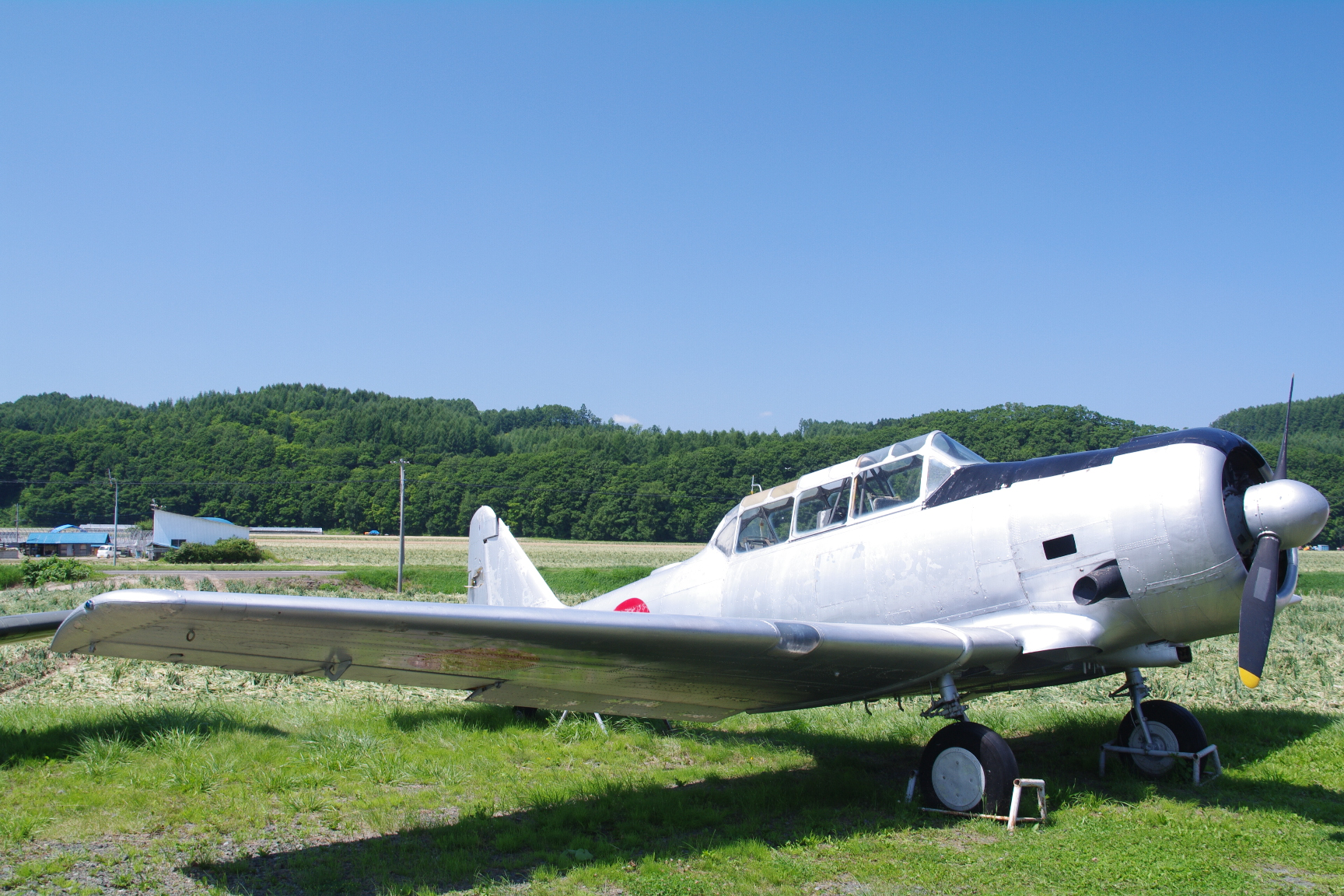 Retired JASDF T-6 preserved at Bihoro Aviation Park in Bihoro Town, Hokkaido